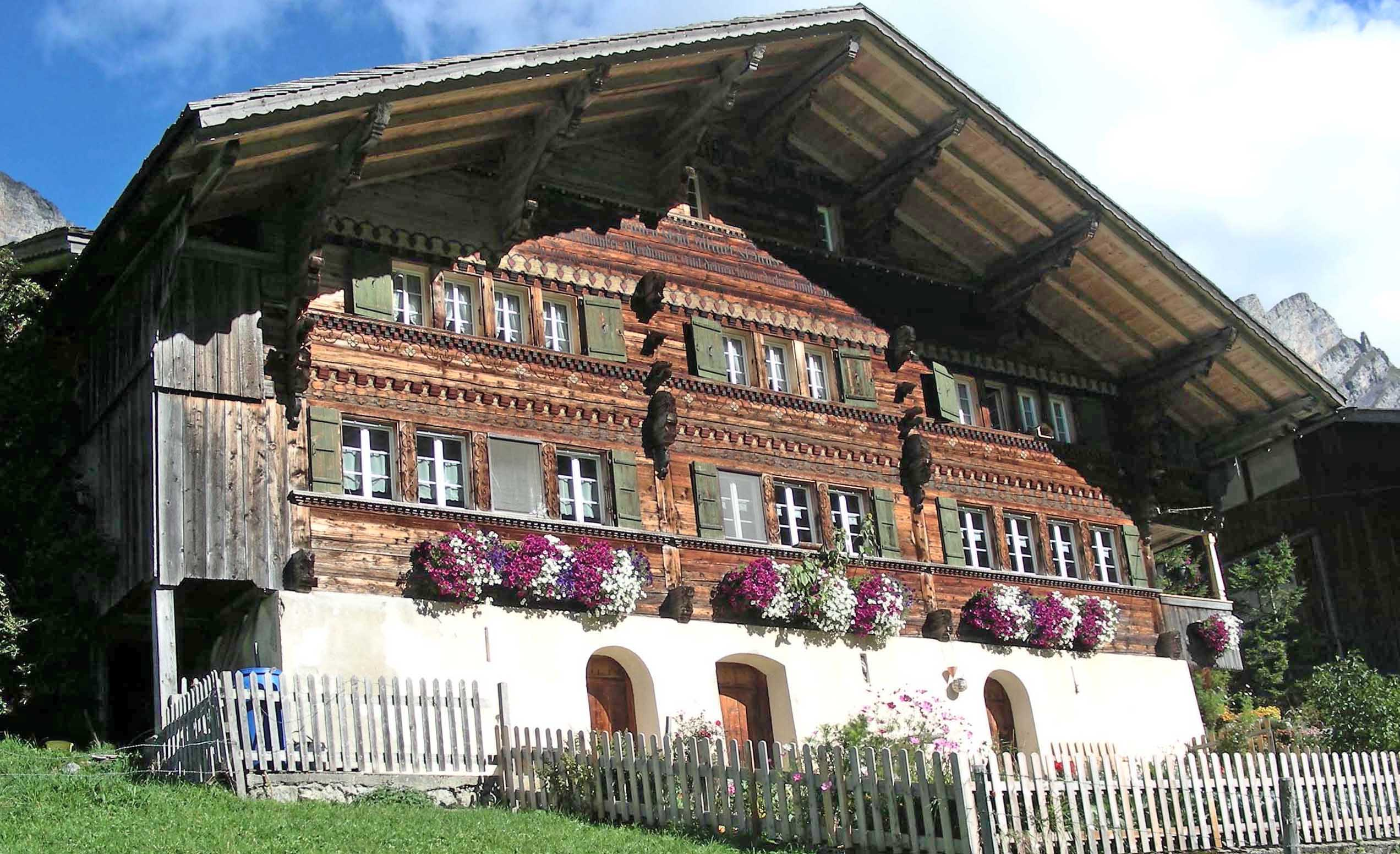 Traditionel house in Färmeltal